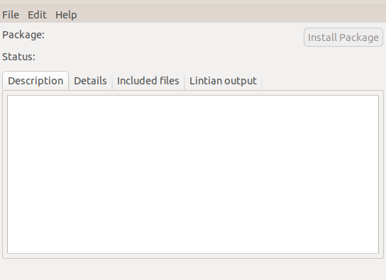 Screenshot of GDebi Package Installer